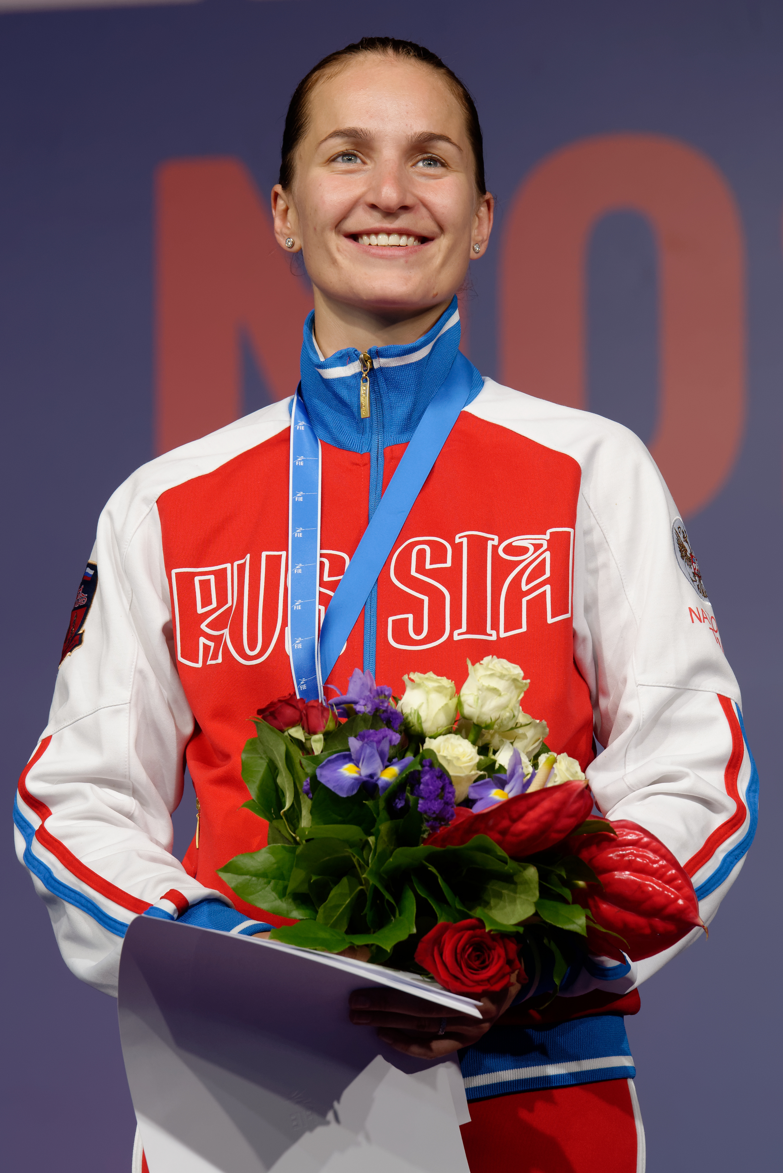 Russia's Sofiya Velikaya at the medal ceremony for women's sabre at the 2015 World Fencing Championships on 14 July 2014 at the Olympic Stadium in Moscow.